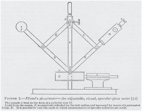 Pfunds Glossmeter